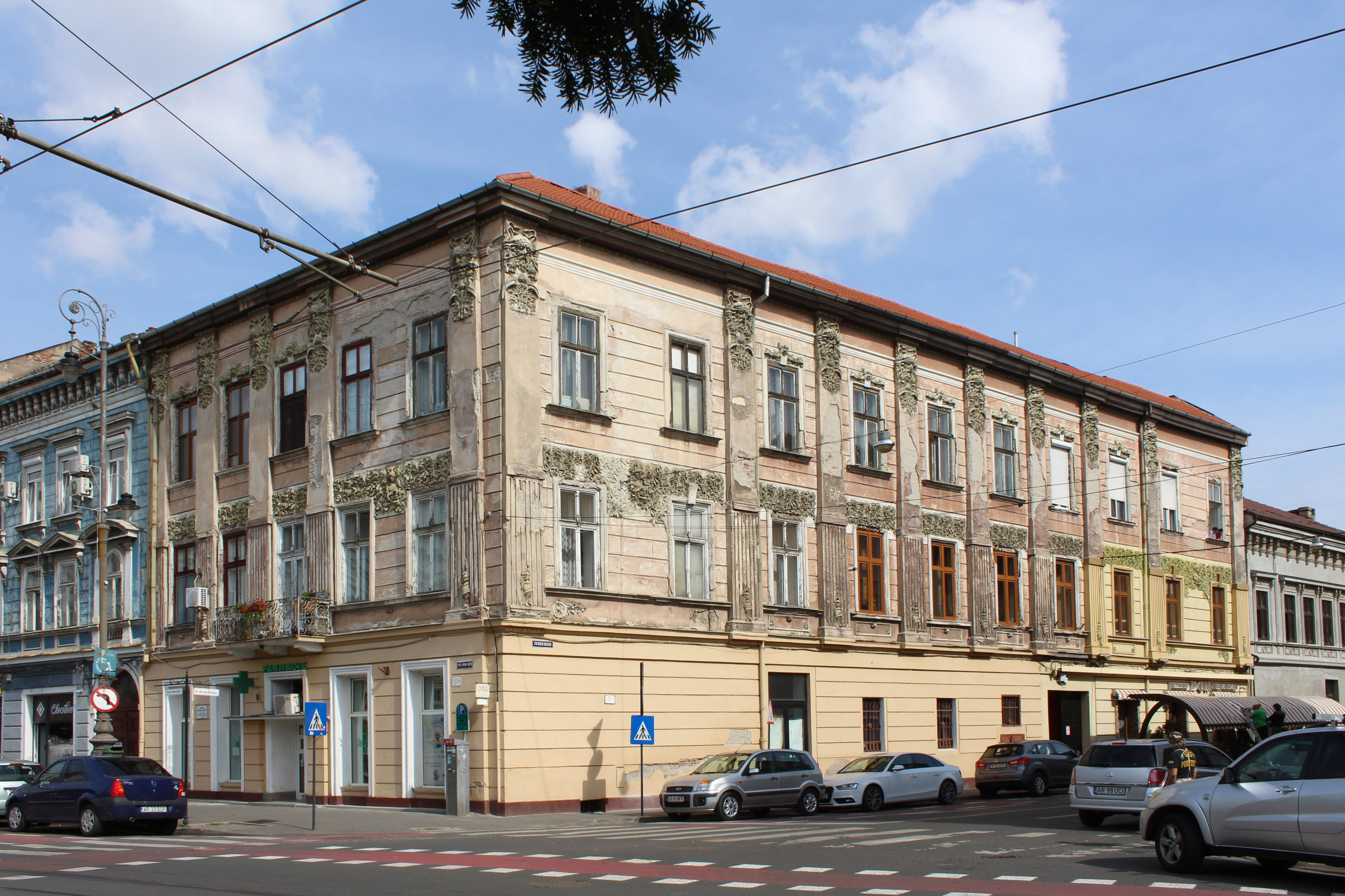 Mátyás Rozsnyay Palace, Arad, Romania, built before 1850.